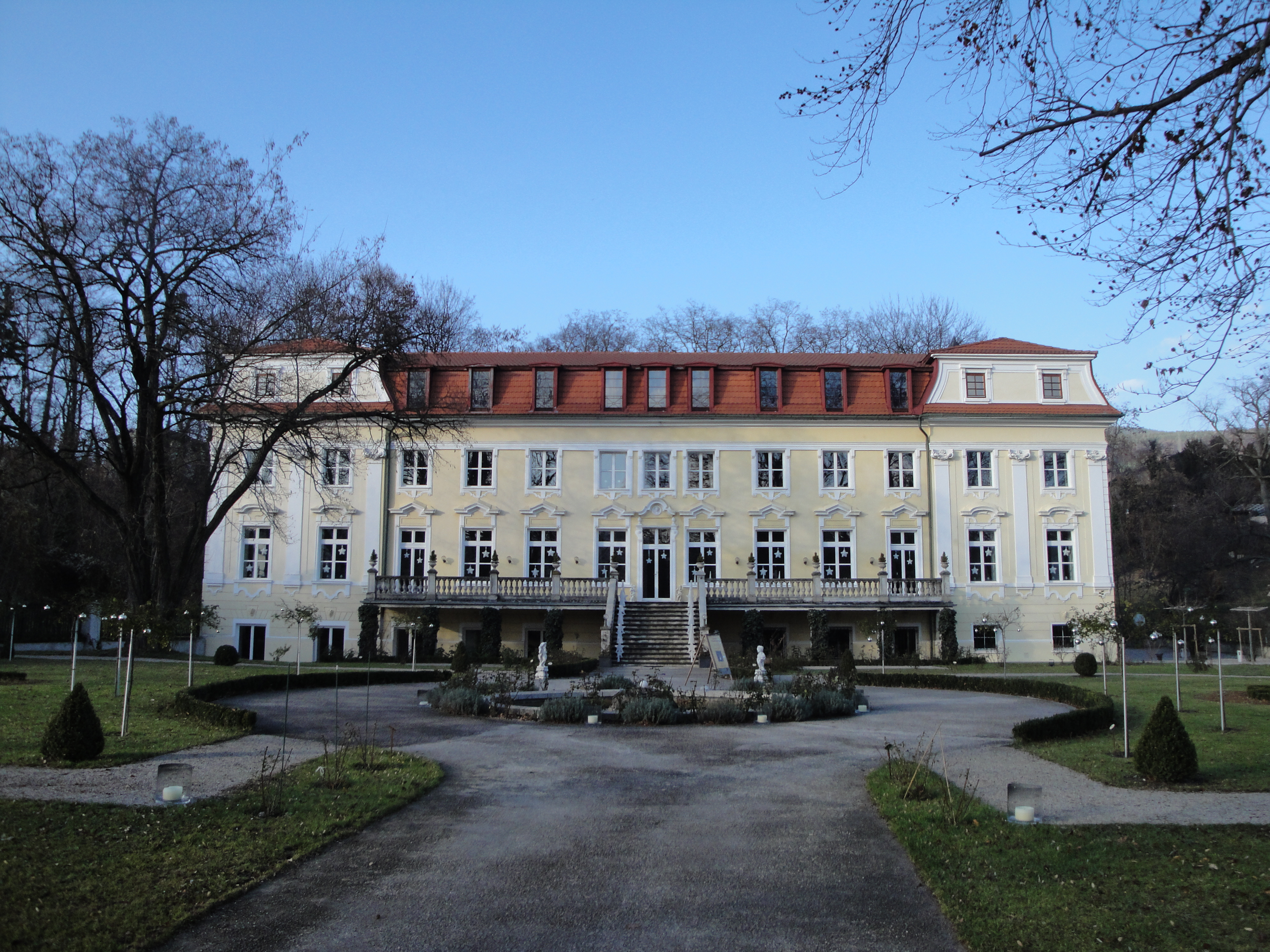 Castle Stuppach near Gloggnitz, Lower Austria